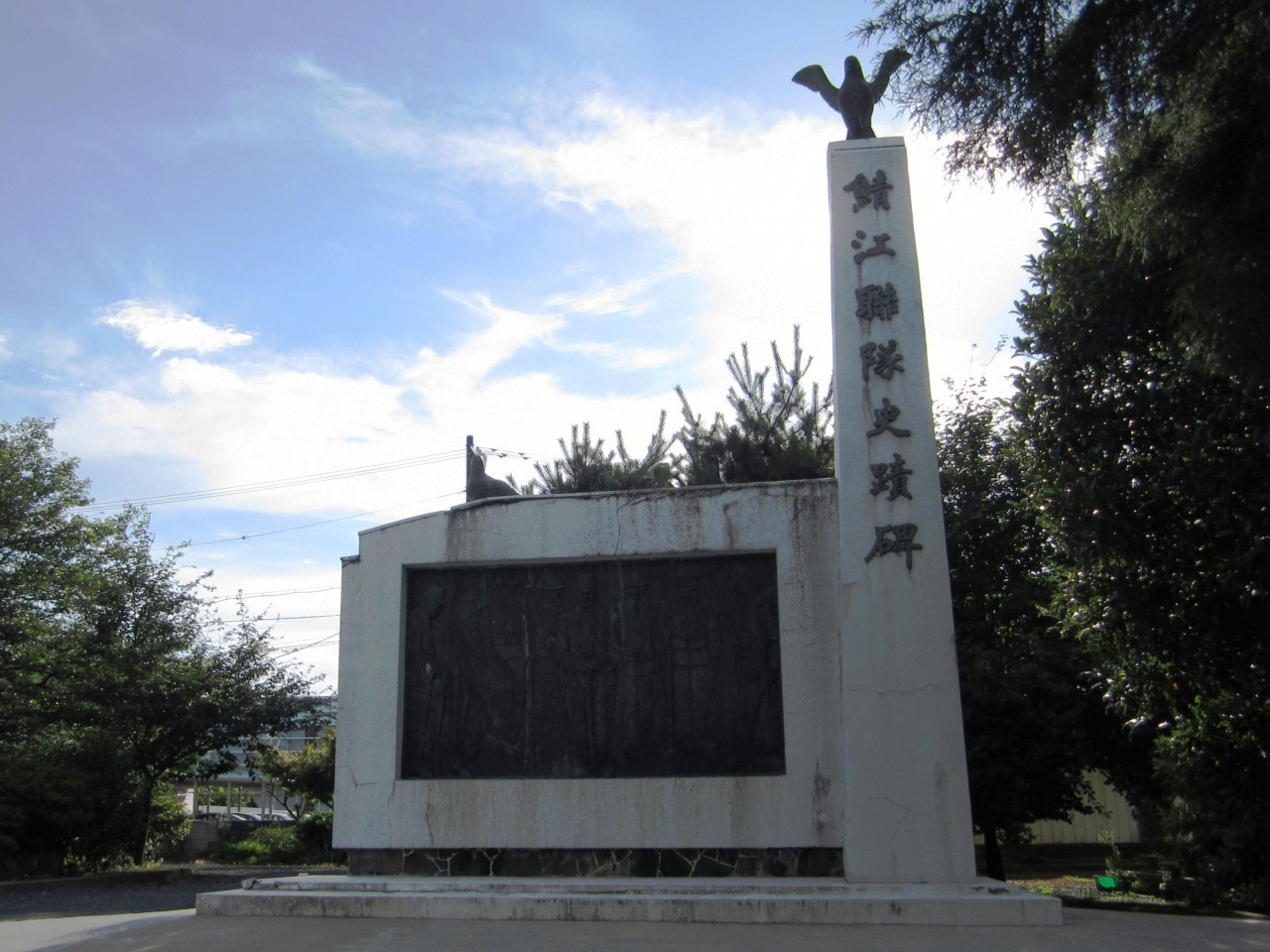 The Monument of 36th Infantry Regiment of the Imperial Japanese Army in Sabae, Fukui.